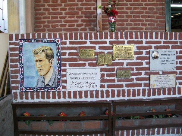 The tomb of Carlos Mugica, Cristo Obrero parish